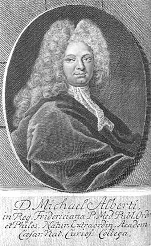 Michael Alberti (1682-1757) Physicians from Germany